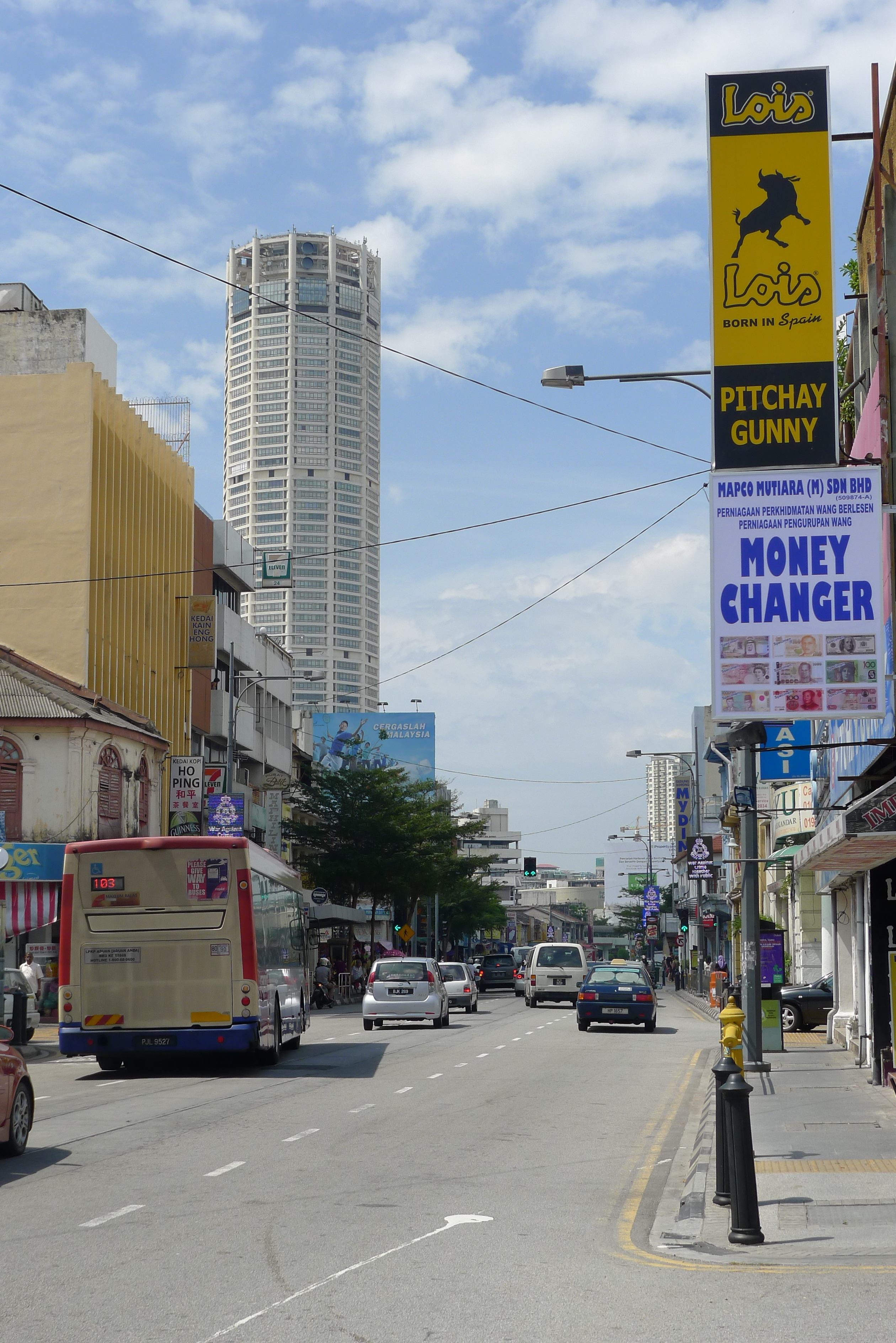 Komtar, as seen along Penang Road, near the junction of Argyll Road in George Town, Penang.